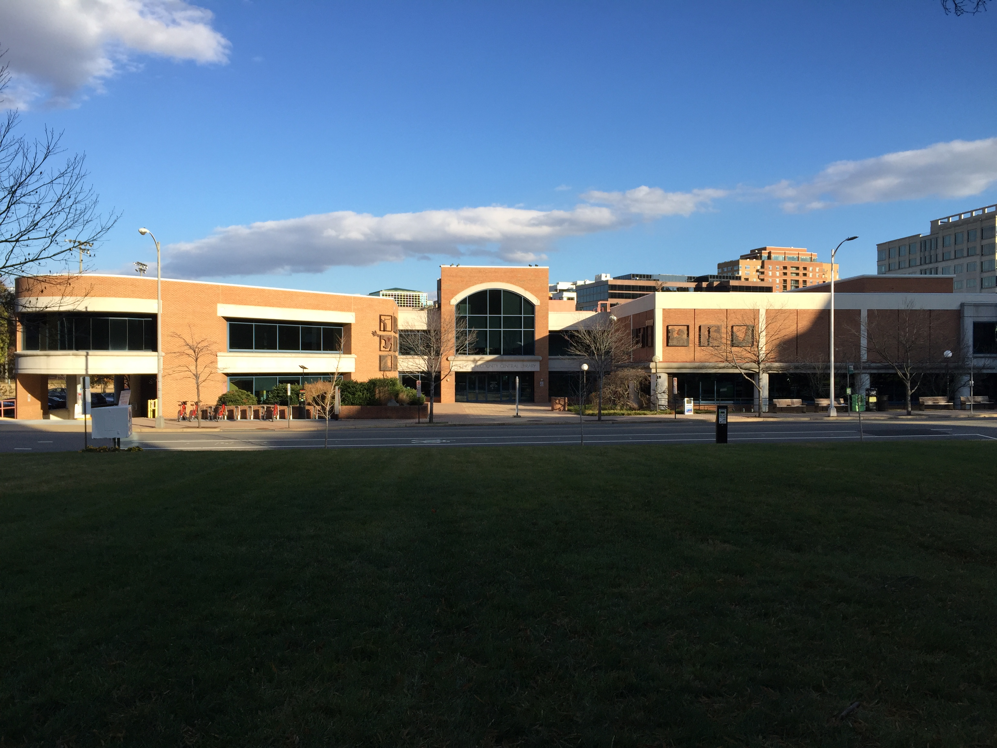 Central Library of the Arlington Public Library, Virginia in 2016